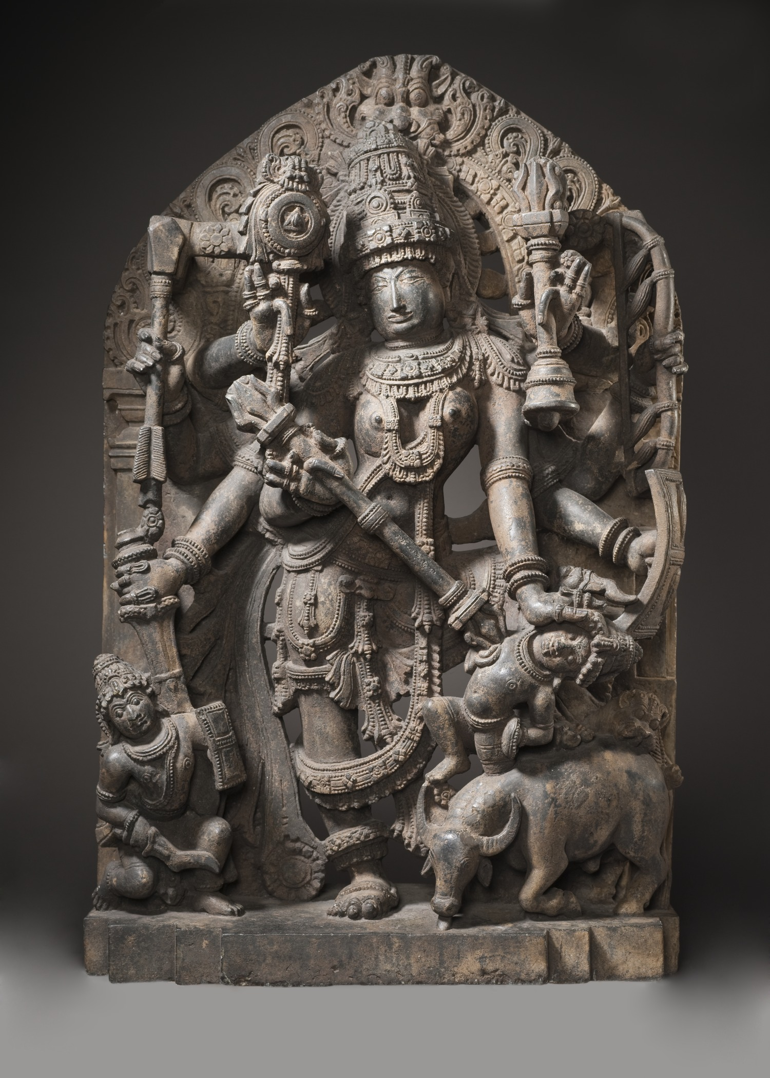 India, Karnataka, 13th century Sculpture Magnesian schist From the Nasli and Alice Heeramaneck Collection, Museum Associates Purchase (M.70.1.1) South and Southeast Asian Art